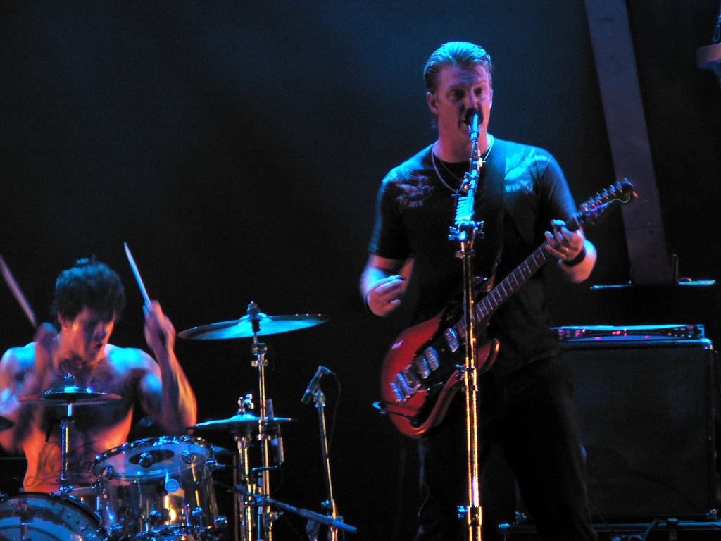 Josh Homme (vocals, guitar) and Joey Castillo (drums) of Queens of the Stone Age performing at the Southside Festival near Tuttlingen, southern Germany, June 24, 2007